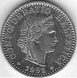 back of 20 Swiss Rappen